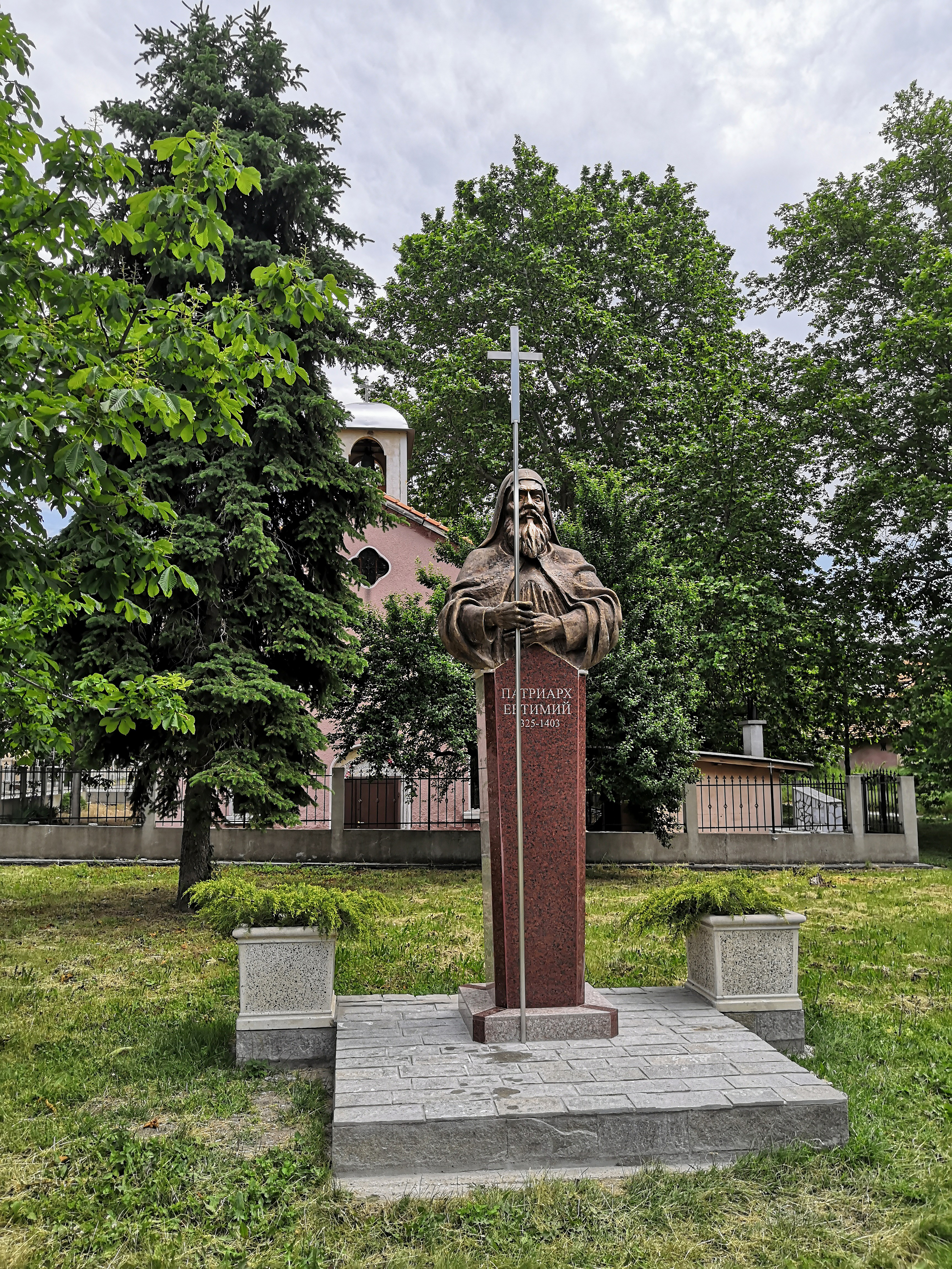 The monument of St. Patriarch Evtimiy in the village opened in 2019